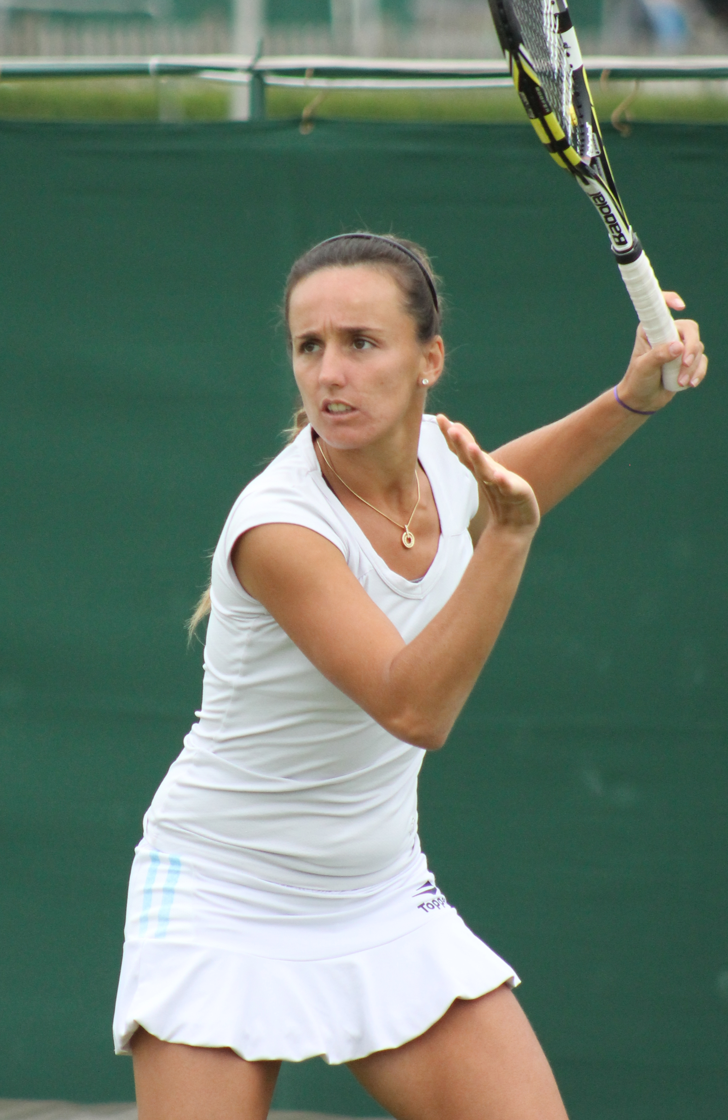 María Irigoyen, 2013 Wimbledon Qualifying Tournament